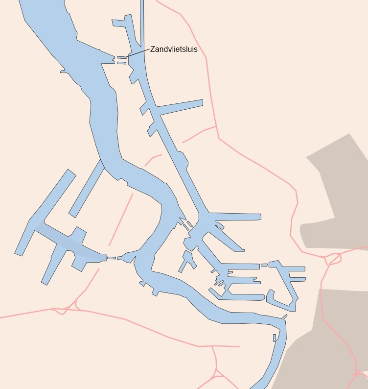 Location of Zandvliet Lock in the Port of Antwerp